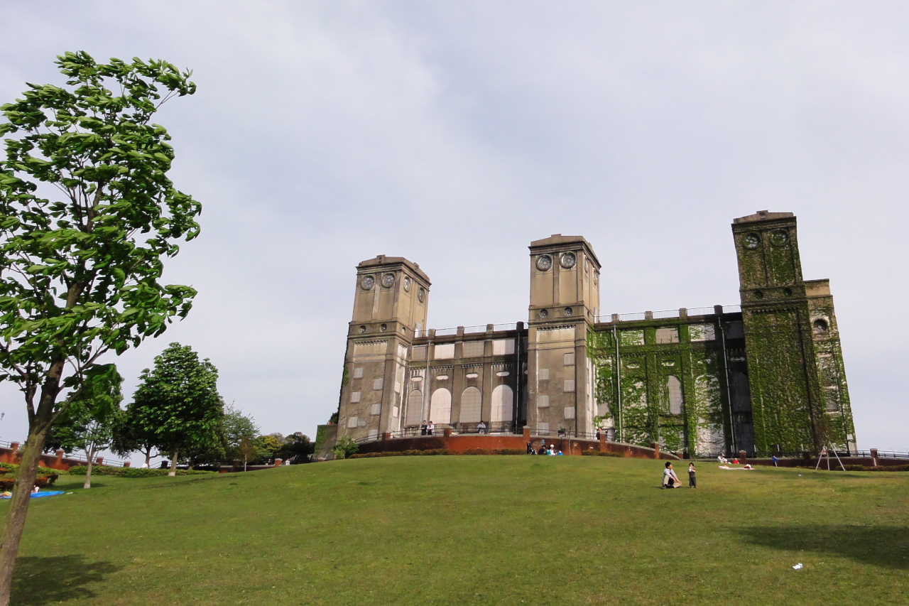 Negishi Forest Park in Yokohama, Japan.